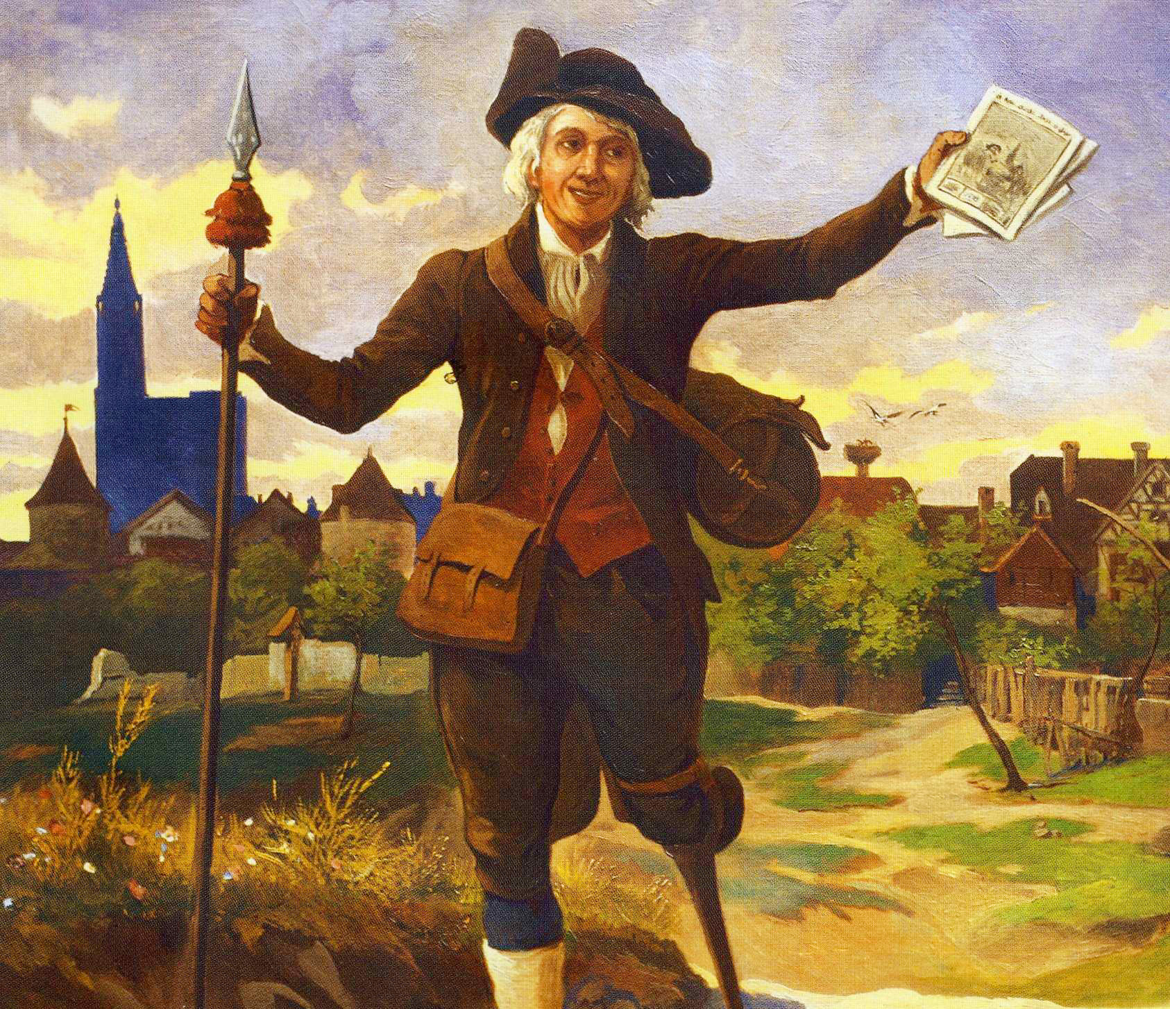 Picture on all the covers of the almanach Le Grand Messager boiteux de Strasbourg